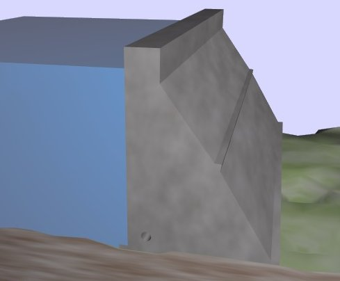 Rendering of a dam for a lake. Image made with Blender and Gimp.